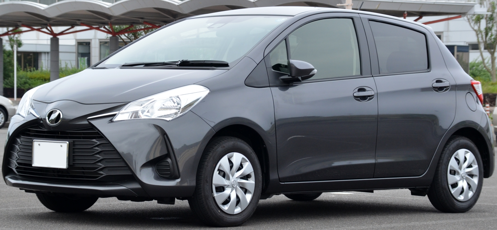 Toyota Vitz 1.0F